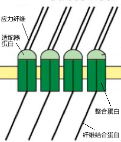 Adhesion description. Intrigin